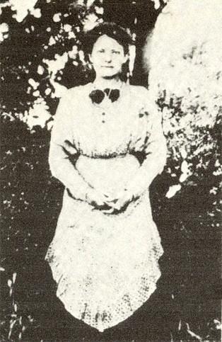 Anna Anderson, born Franziska Schanzkowska